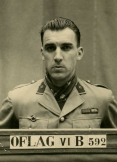 Pierre Mairesse-Lebrun in 1941 Oflag VIB = Dössel